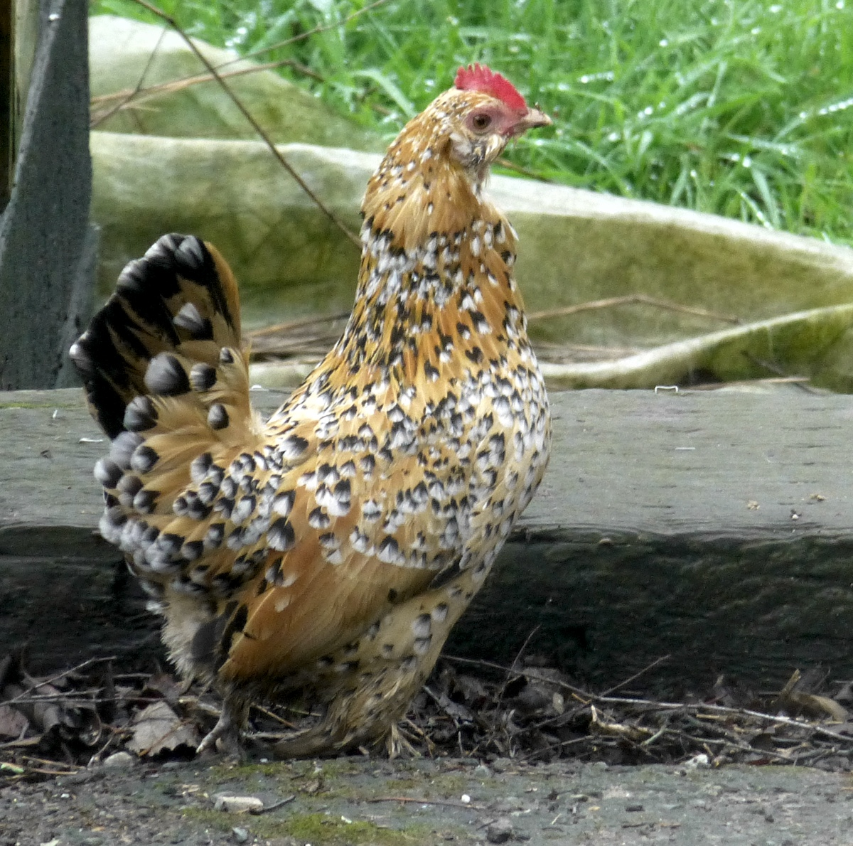 This chicken is a one year old mille fleur bantam hen.